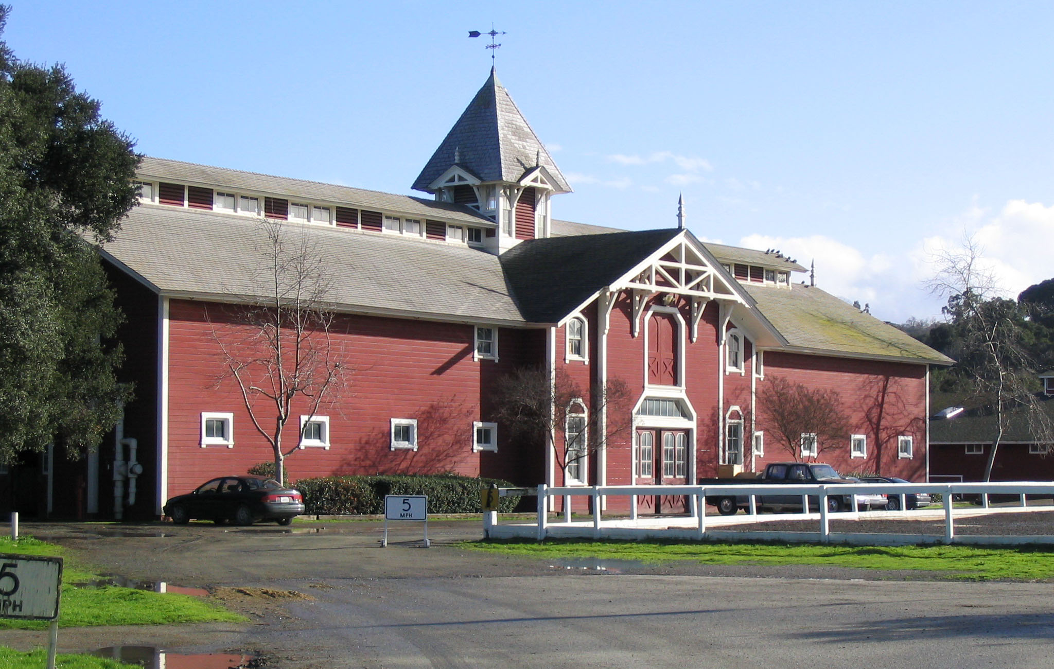 The Red Barn at Stanford University, circa 1999. Taken by John Nagle